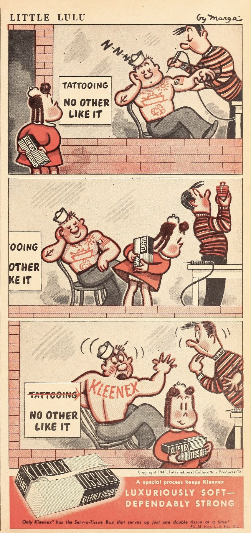 Little Lulu - Tattooing Kleenex, by Marge, 1946